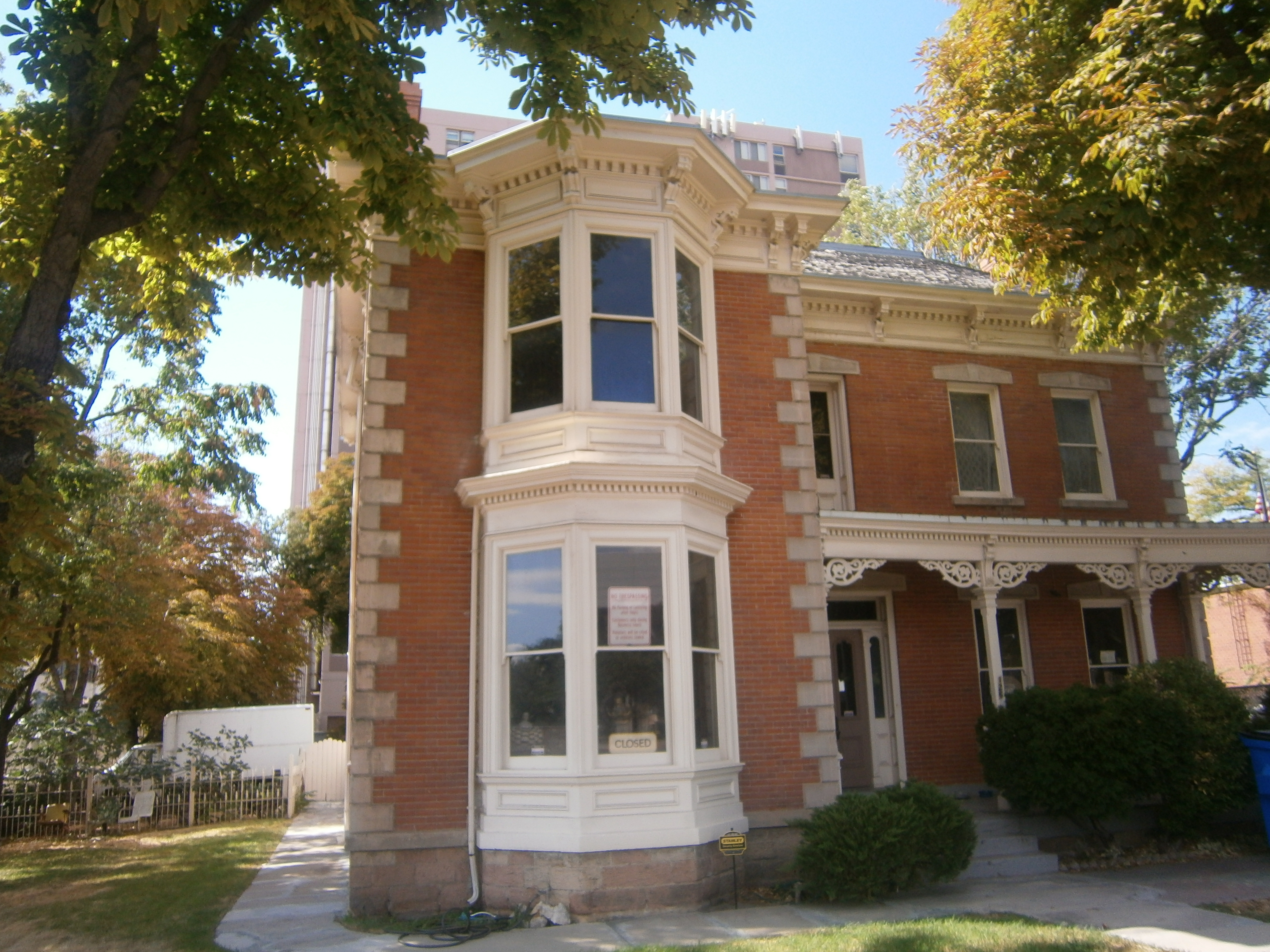 The Lewis S. Hills House, a historic house in Salt Lake City, Utah, United States. Formerly a hotel, it now houses an antique store.